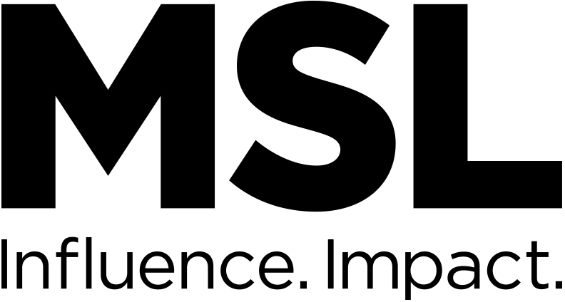 MSL's company logo